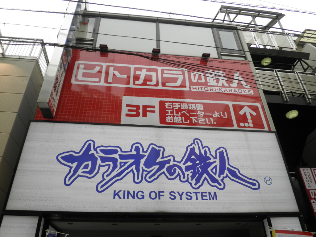 "Karaoke no tetsujin" (Karaoke Box) in Tokyo, Japan.